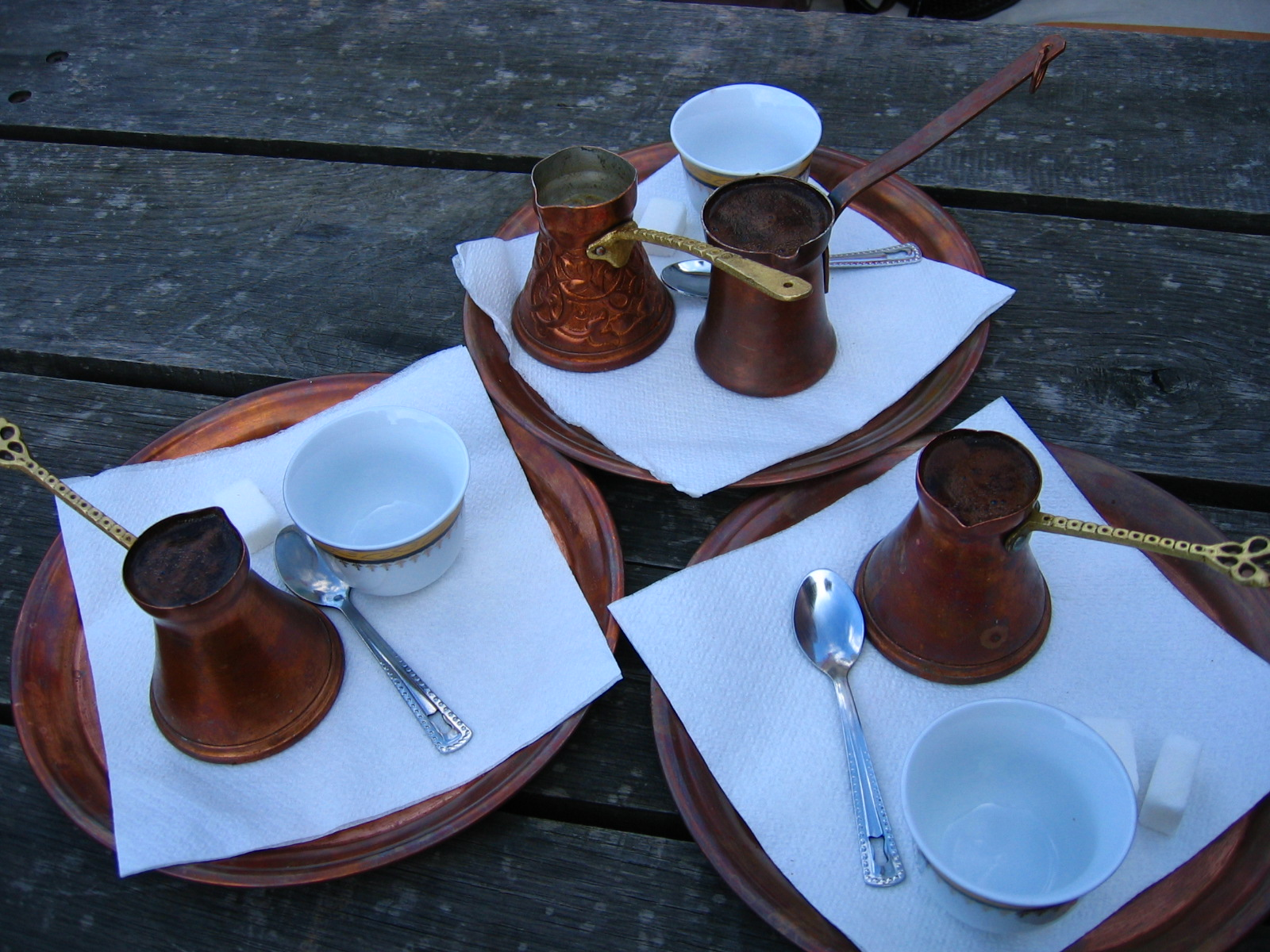 Original Turkish coffee served in džezvica-cans and cups without handles. Picture taken in Bosnia-Herzegovina.